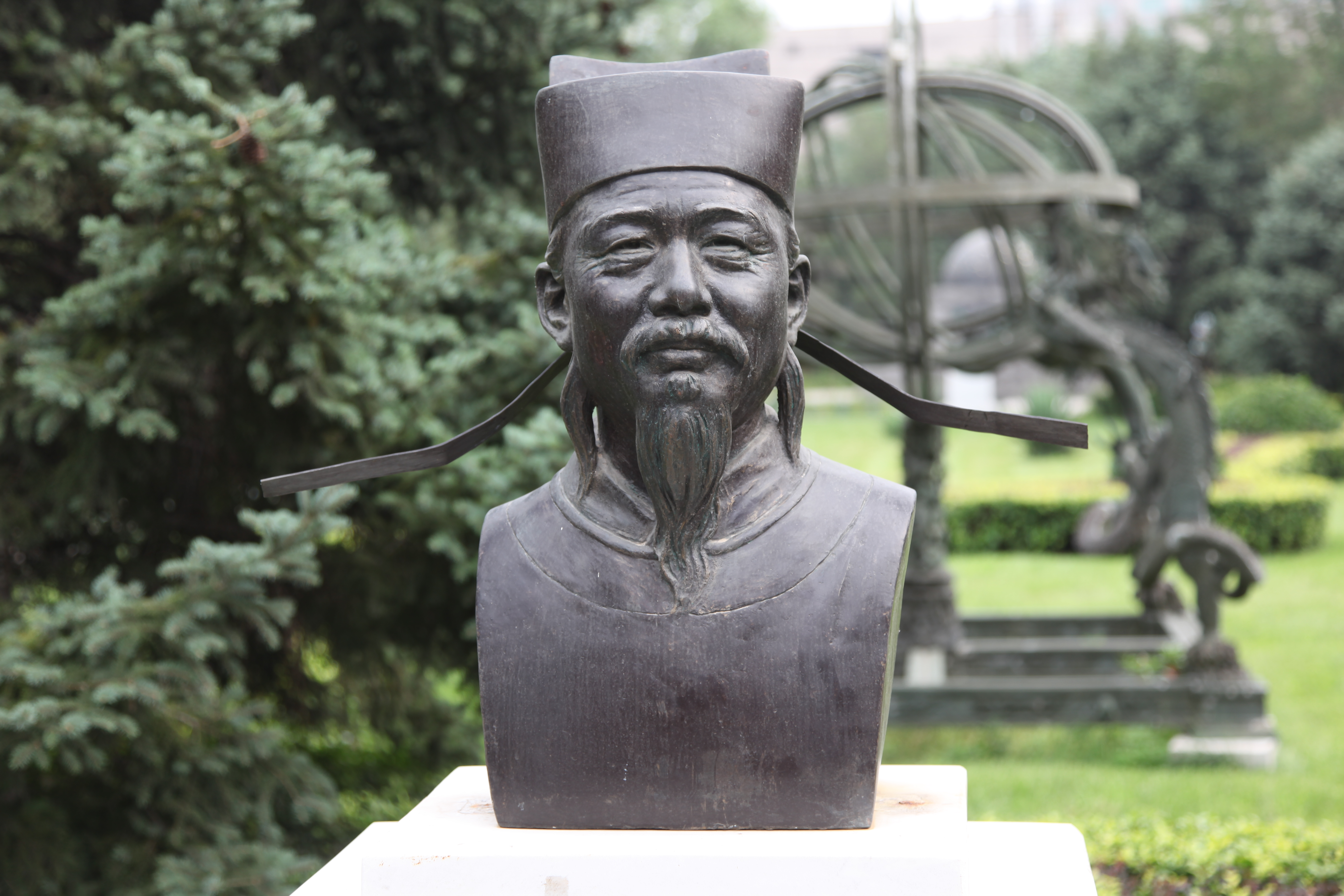 Exhibition description: Shen Kuo (1031-1095 AD) A prominent scientist and astrononmer of the Song Dynasty. Shen Kuo was the head official of the Bureau of Astronomy in the Song court, where he improved the design of several local astronomical instruments, including the amillary aphere, the gnomon and the clepsydra clock. He also formulated a solar calendar named the Twelve Solar Terms Calendar, which was used in agriculture. His work are summed up in his Dream Pool Essays, one of the greatest books of that time.